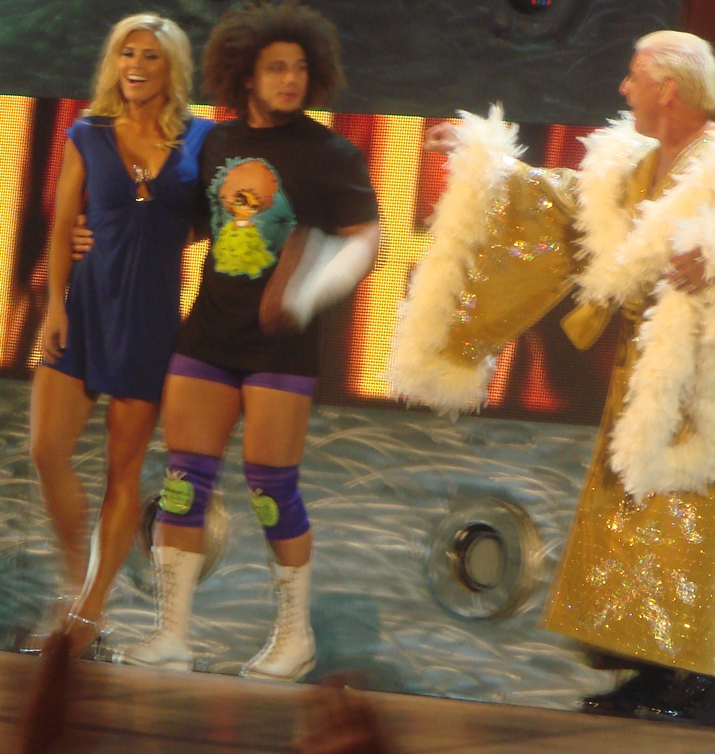 Torrie Wilson, Carlito, and Ric Flair at WWE Raw event at the Nashville Arena in Nashville, TN, April 30 2007. Taken by me.